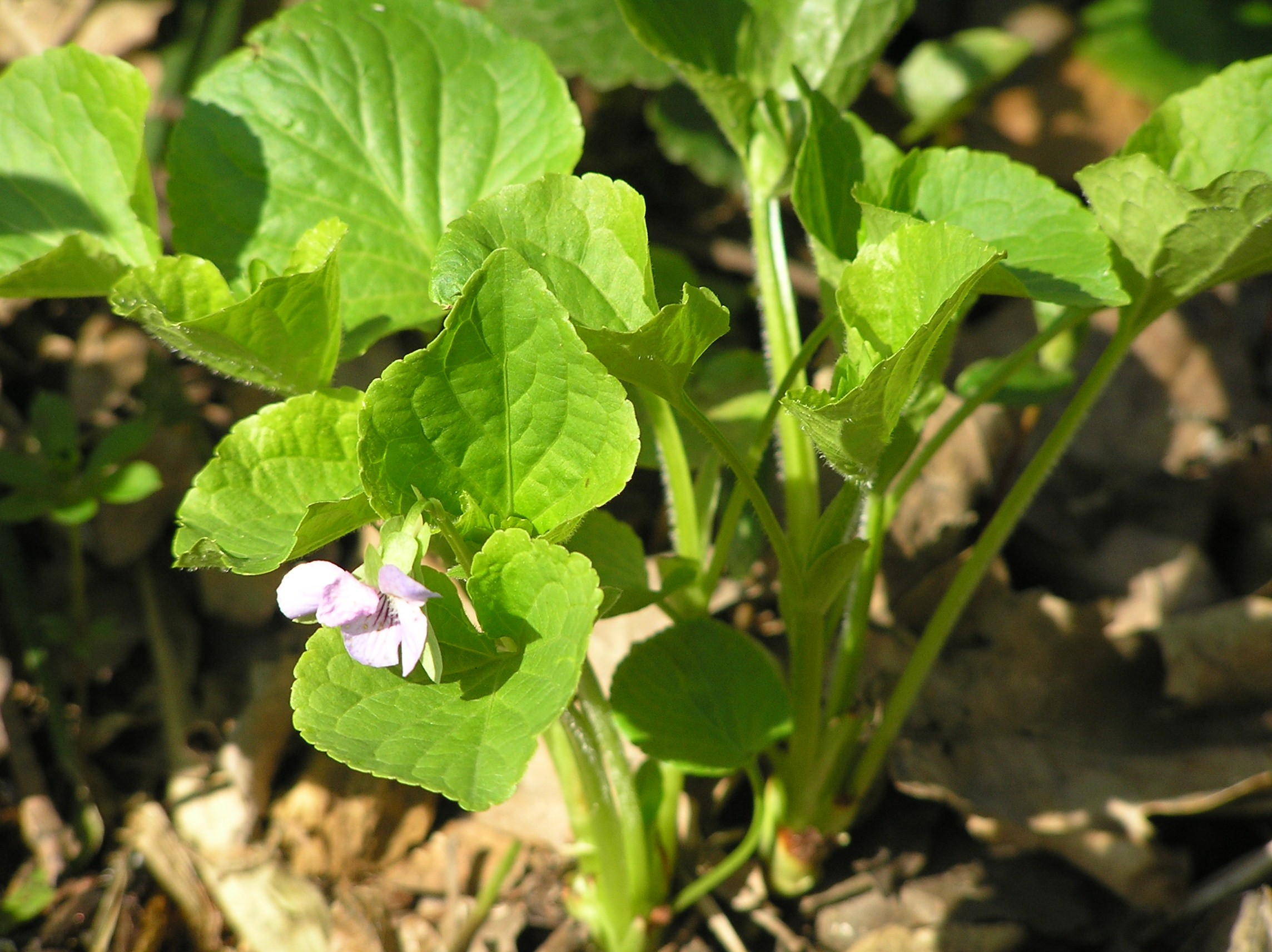 Viola mirabilis, near the village Březová, Bílé Karpaty Mountains, Czech Republic